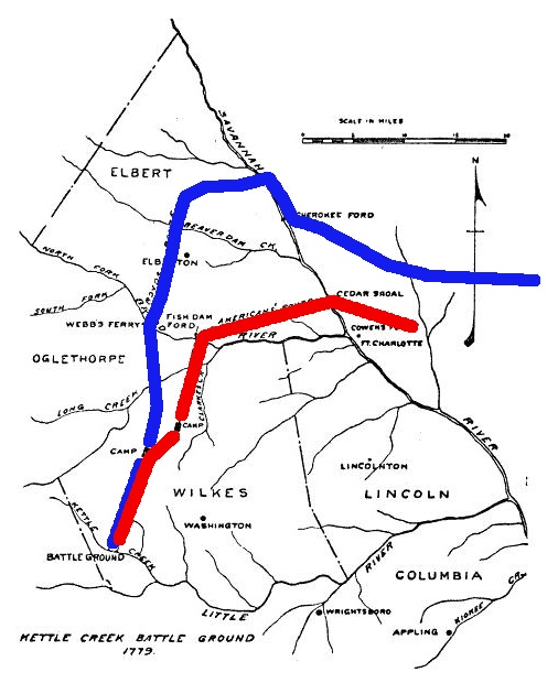 A 1926 map reconstructing the routes of American (Patriot) and British (Loyalist) forces prior to the 1779 Battle of Kettle Creek. The Loyalist route has been highlighted in blue, the Patriot route in red.